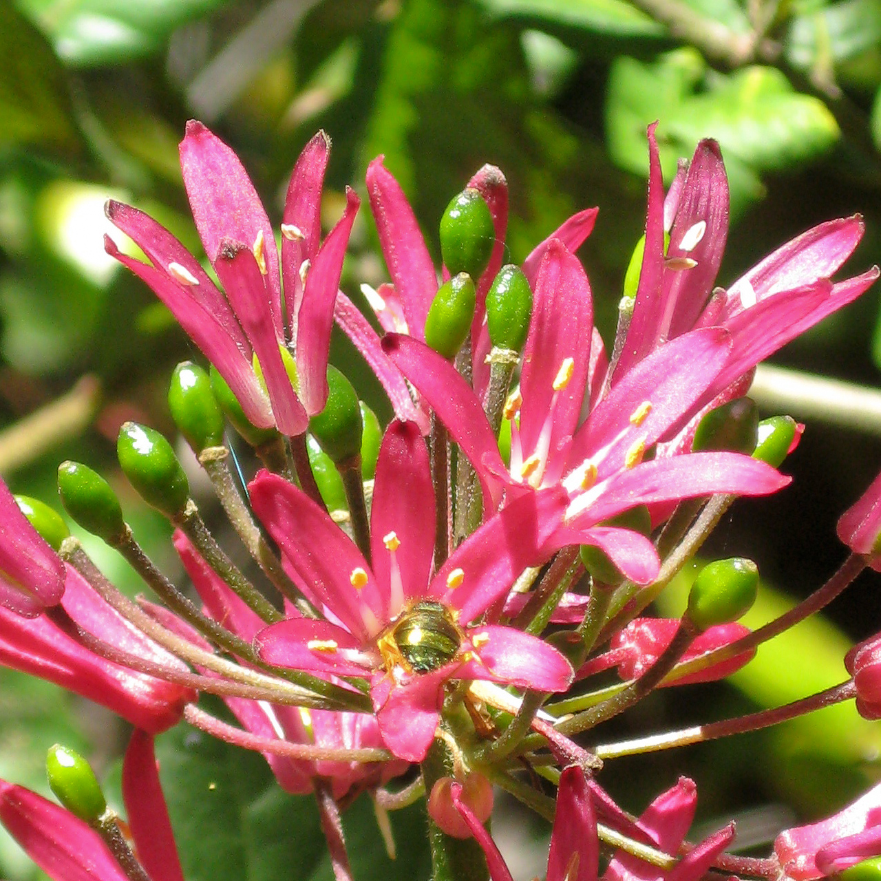 Clintonia andrewsiana at Kruse Rhododendron State Natural Reserve, California, USA